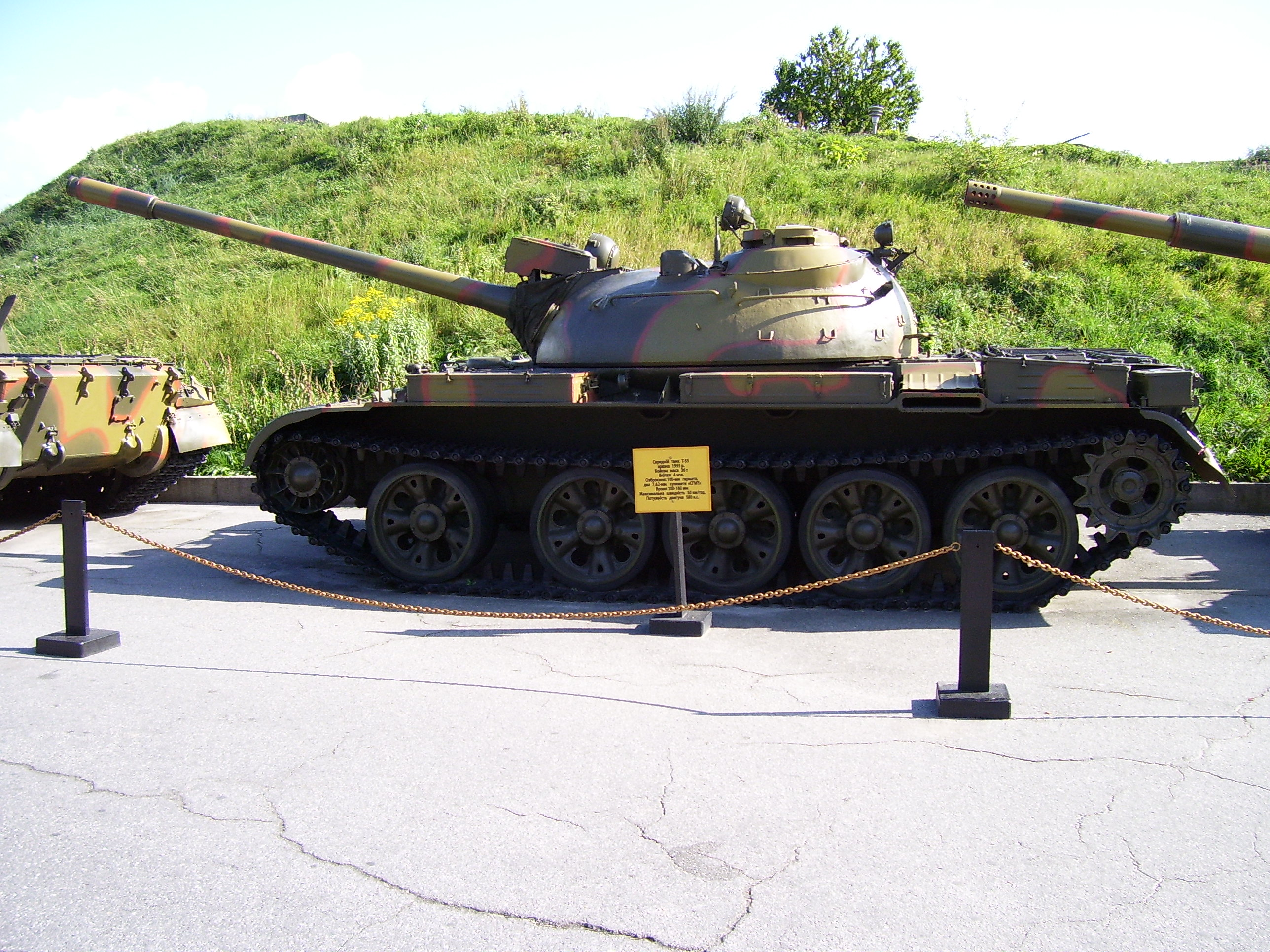 T-55A at the National Museum of the Great Patriotic War